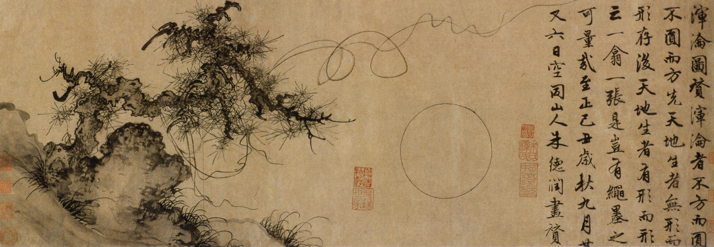 "Primordial Chaos" (渾淪圖) drawn by Zhu Derun in AD 1349, Yuan Dynasty. Ink on paper. Height: 29.7 cm; width: 86.2 cm. Shanghai Museum.